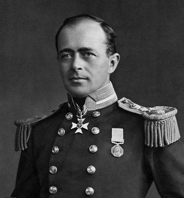 Crop of Robert Falcon Scott in full regalia: this was reproduced as a frontispiece for Scott's The Voyage of the Discovery (London 1905)